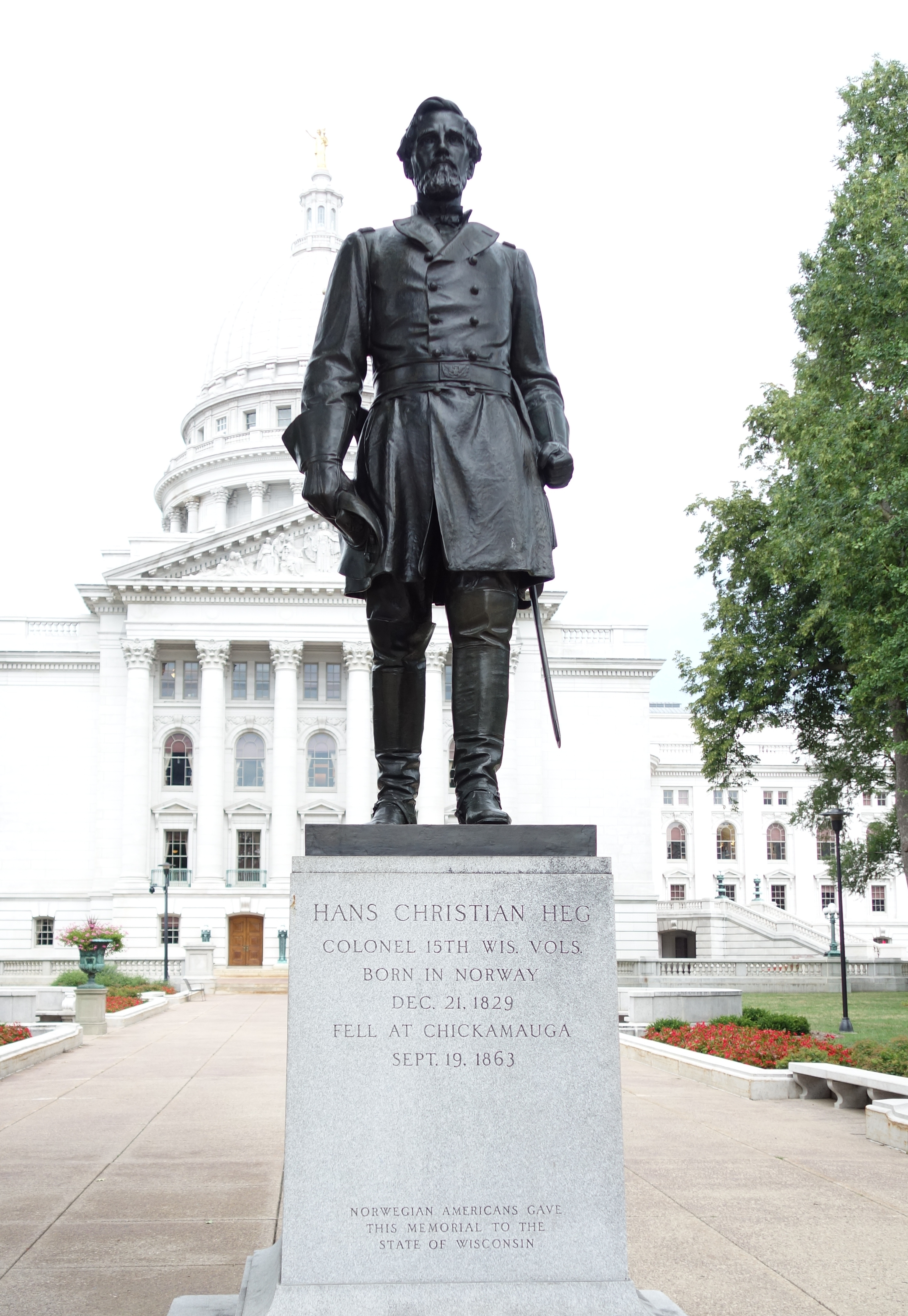 Hans Christian Heg memorial by Paul Fjelde (1892–1984), outside the Wisconsin State Capitol, Madison, Wisconsin, USA. This statue was unveiled on October 17, 1926, according to [1]. It is in the public domain because it was published in the United States between 1923 and 1963, with its copyright not renewed.